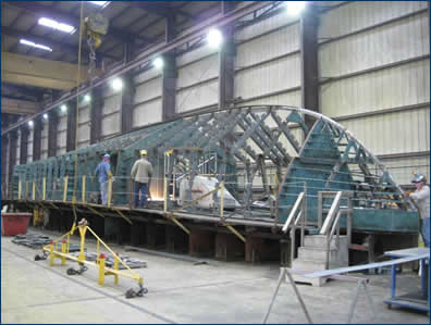 Original caption: "December 15, 2009- The U.S. Coast Guard’s Office of International Acquisition is working with the Republic of Yemen’s Coast Guard on a Foreign Military Sales program to procure two 87’ Protector-class Coastal Patrol Boats. The two CPBs, Sana’a and Aden, will be preliminary accepted and commissioned in approximately one year.The CPBs will assist the Yemen Coast Guard in addressing an anti-piracy mission in the Gulf of Aden that is strategically important to U.S. interests." The vessels will be sister ships to the USCG's Marine Protector class.